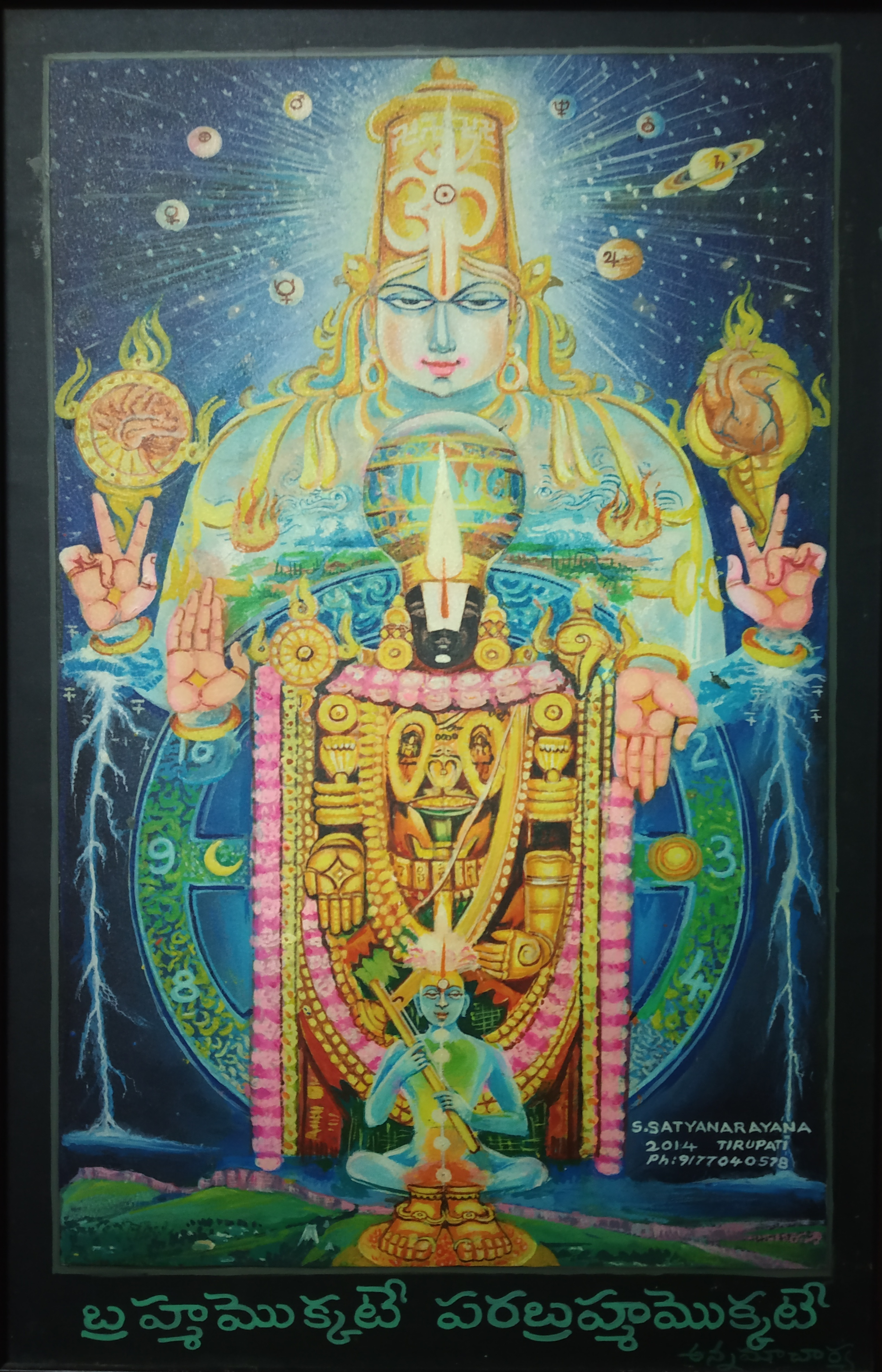 Brahmamkkate Parabrahmamokkate